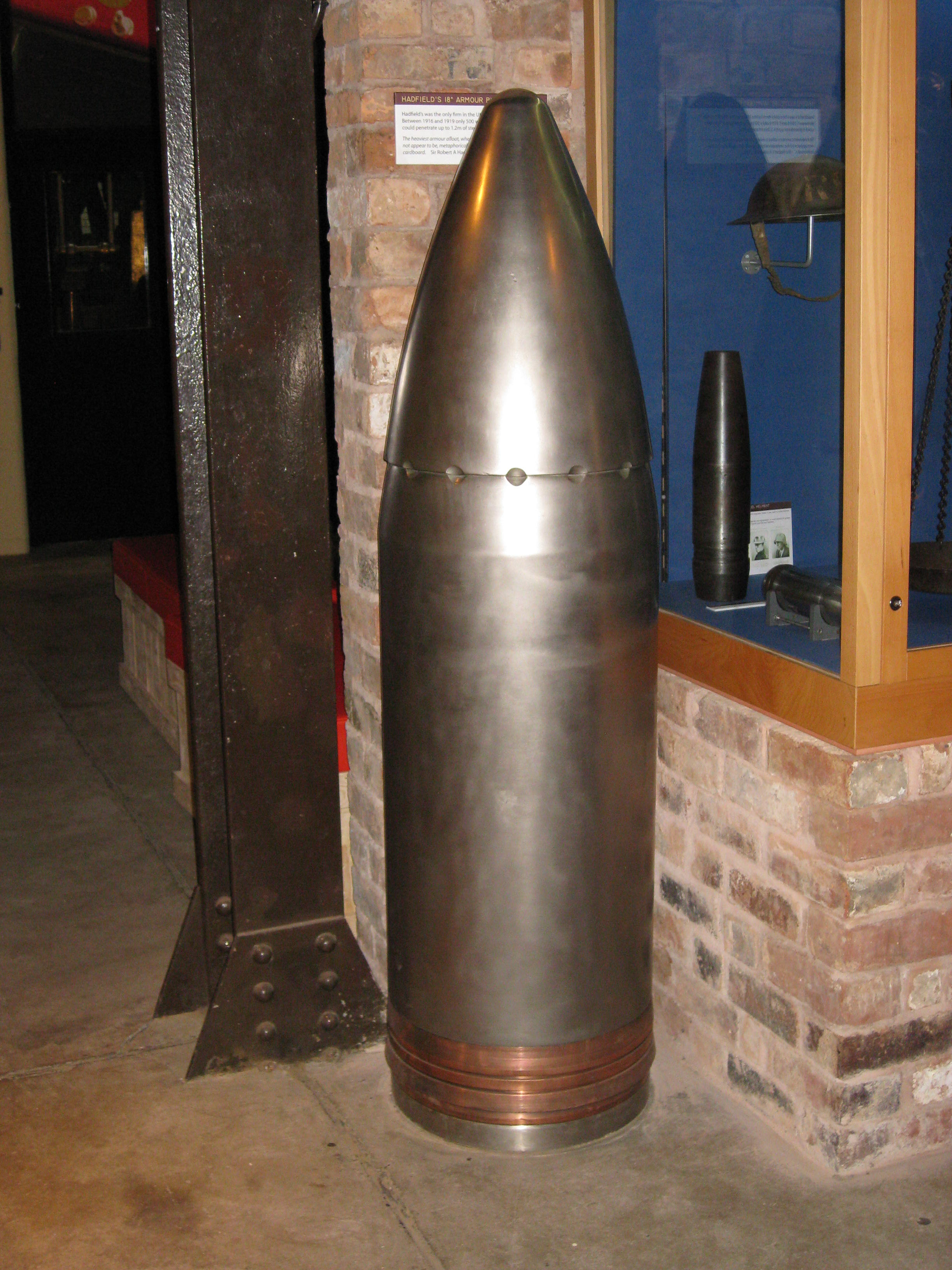 Hadfields 18 inch armour-piercing shell, on display at Kelham Island Museum, Sheffield. Only 500 were made between 1916 and 1919.